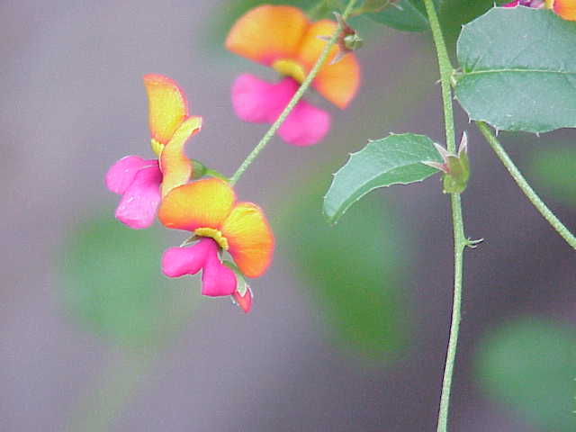 Species: Chorizema cordatum Family: Fabaceae Image No. 1